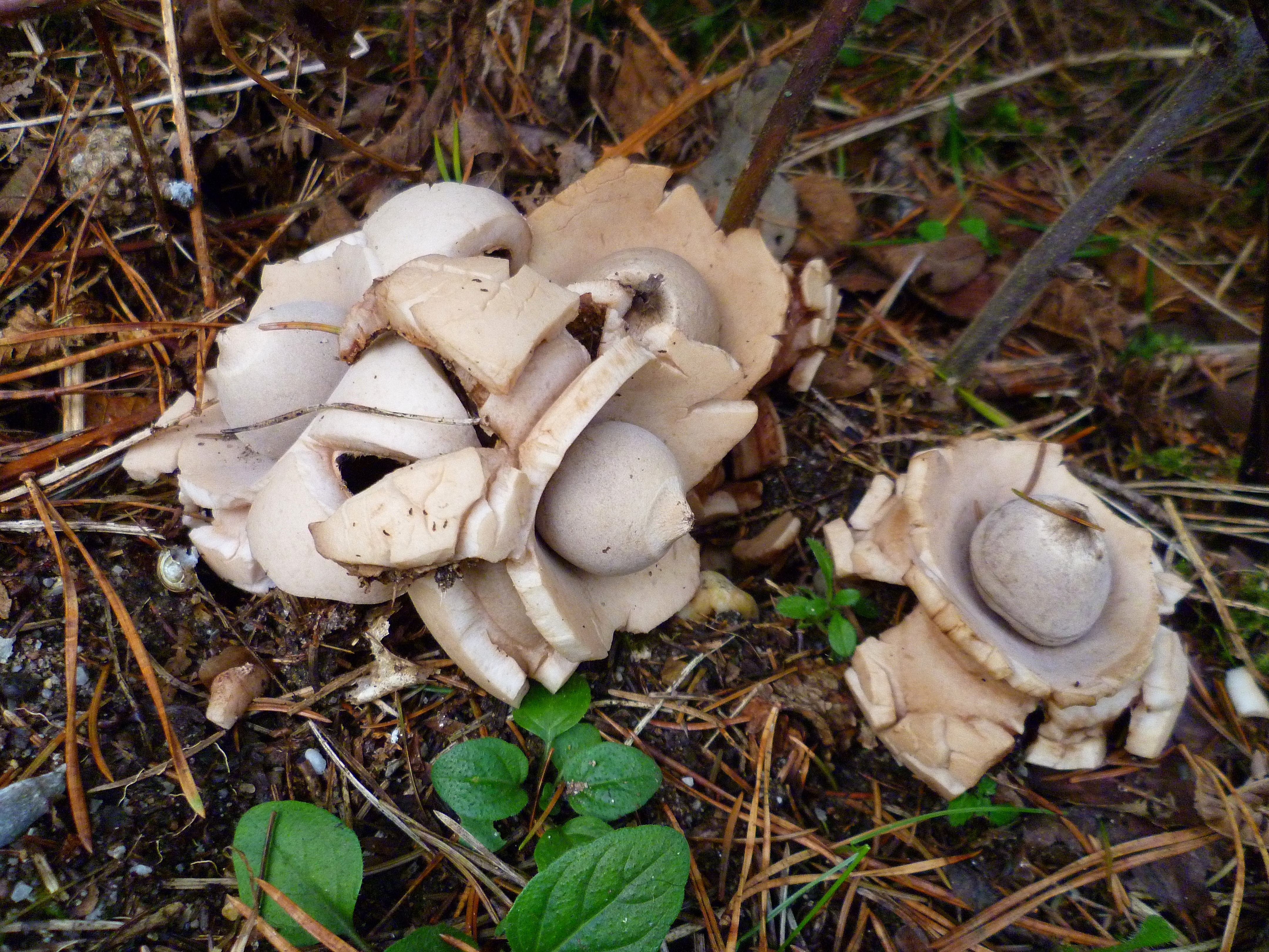 Geastrum triplex